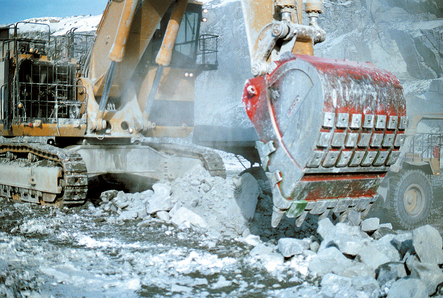 This mining hoe bucket illustrates several GET components/wearparts -- including shrouds, wear bars and teeth.